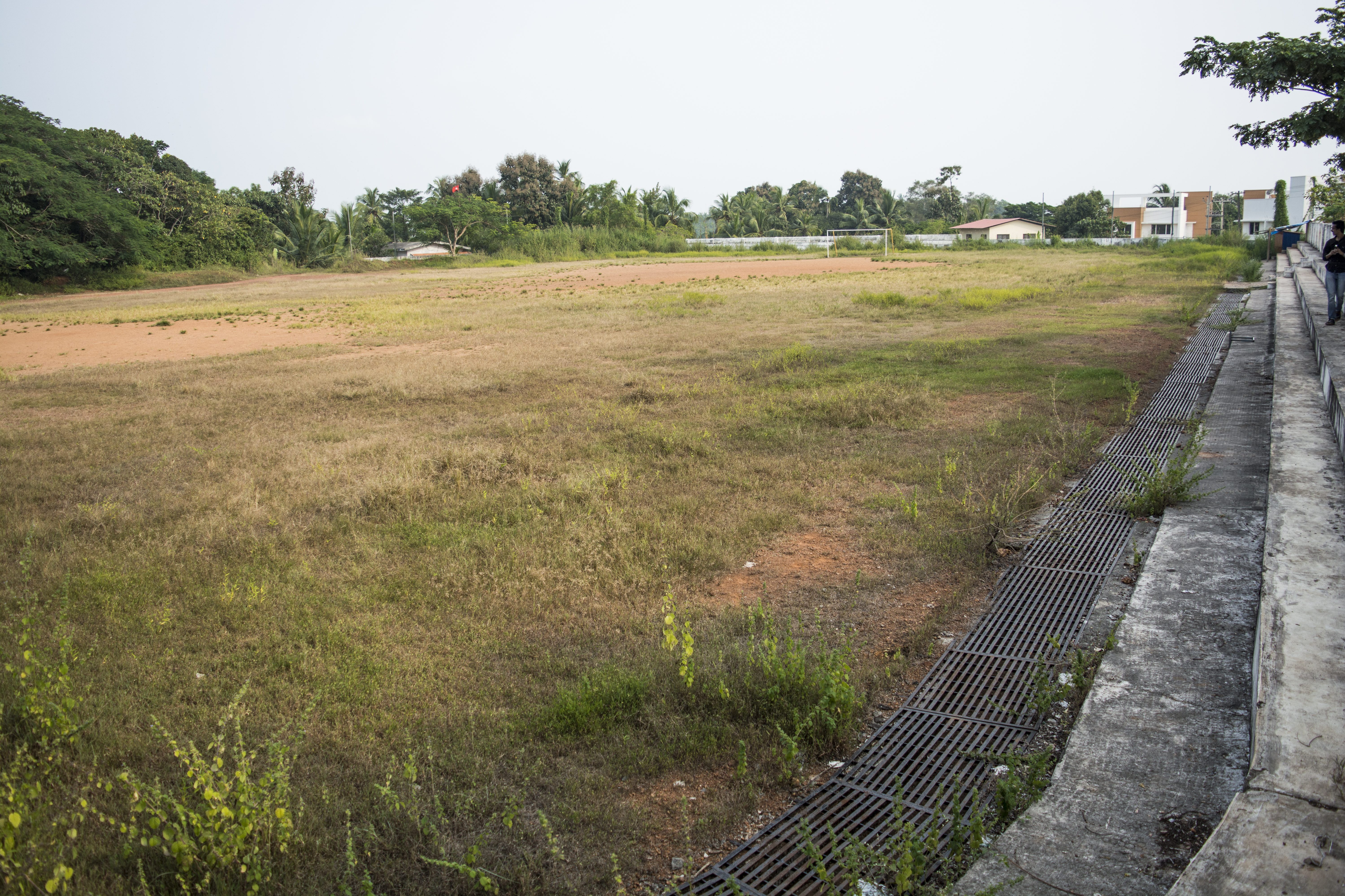 at muzhappilangad